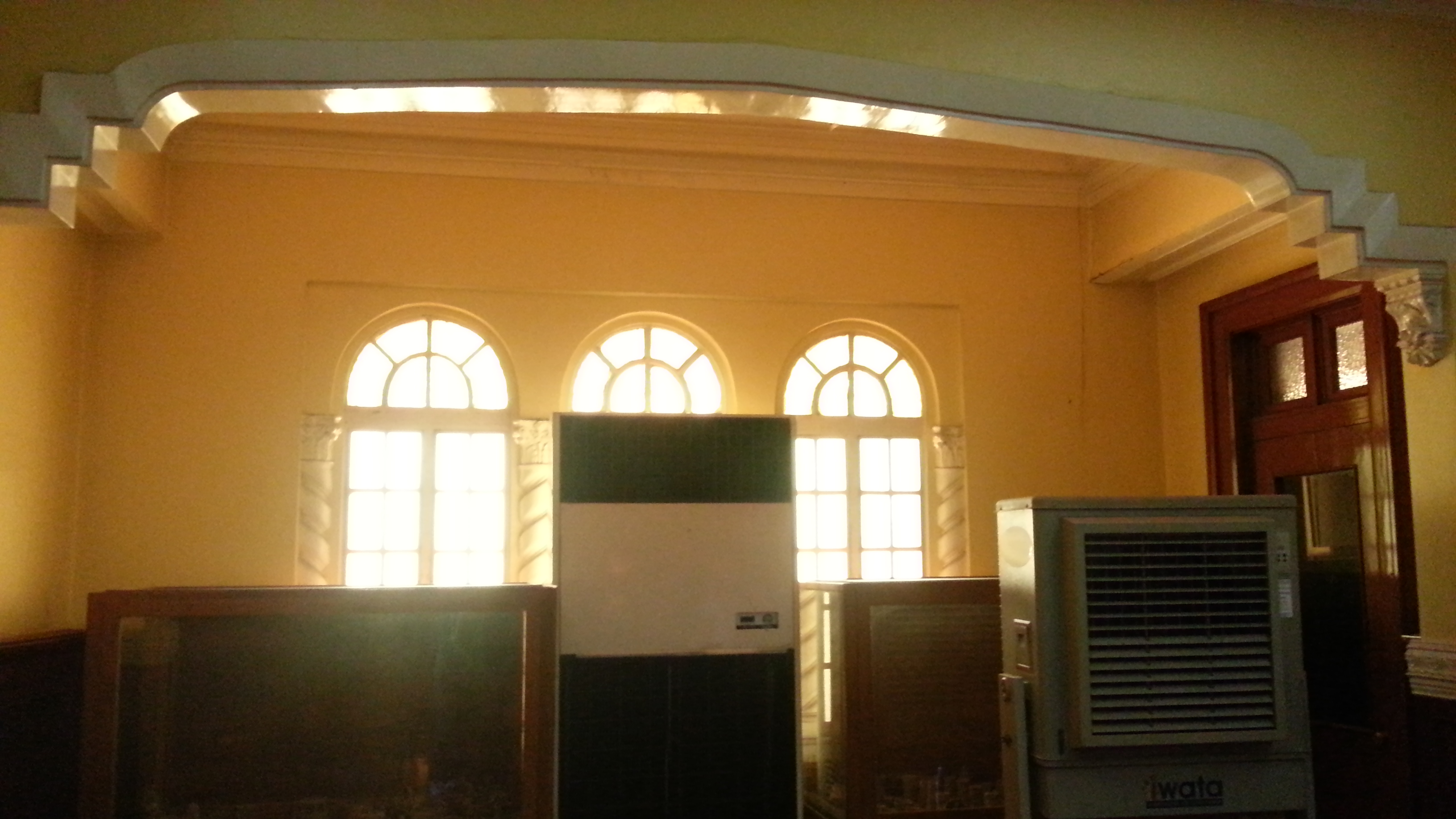 It was in this place where the American flag was raised to signify the liberation of Pasig from the Japanese forces